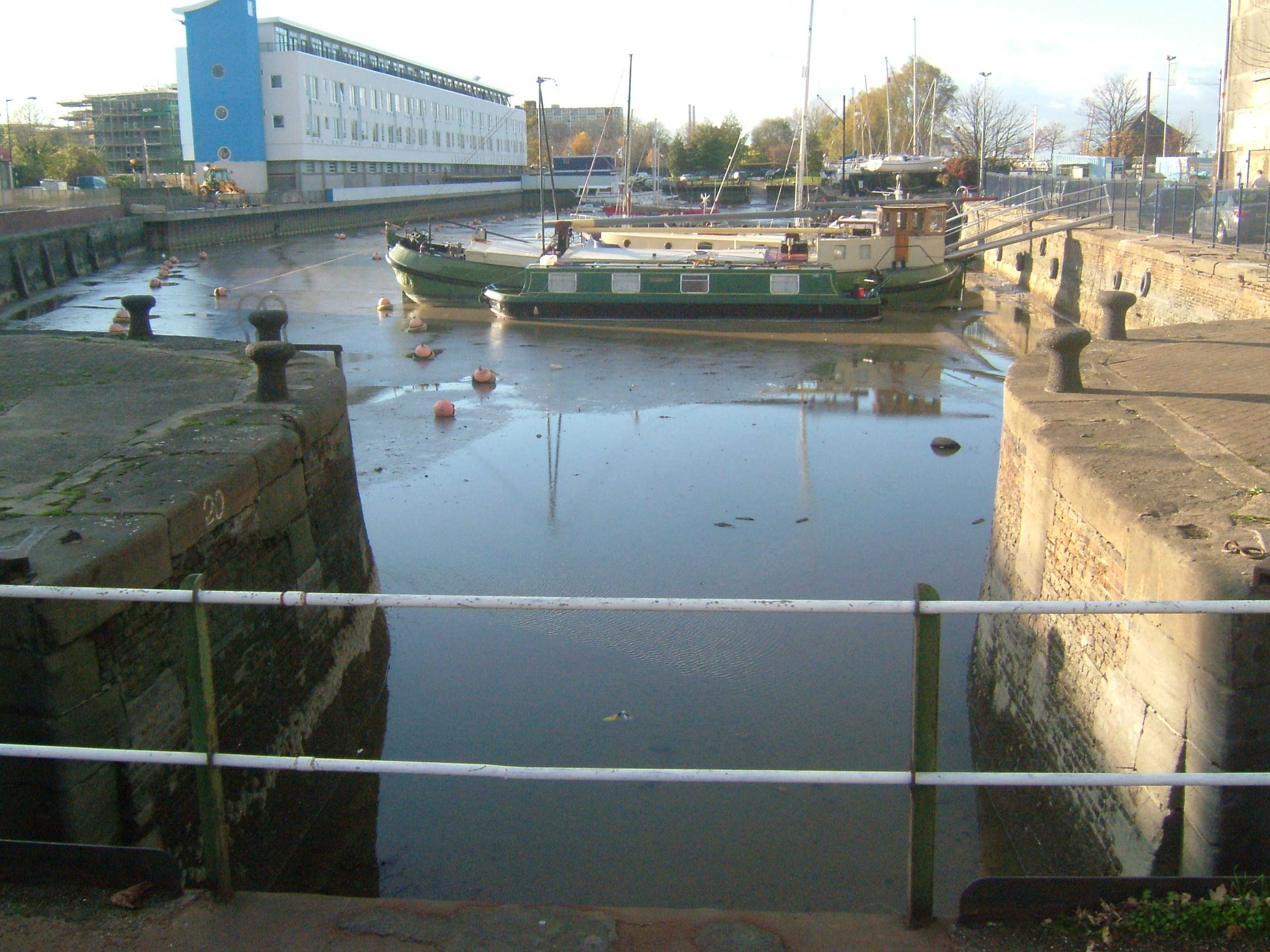 Gravesend is in North Kent, England on the River Thames. The Gravesend Canal Basin on the Thames and Medway Canal. The Canal no longer exists..